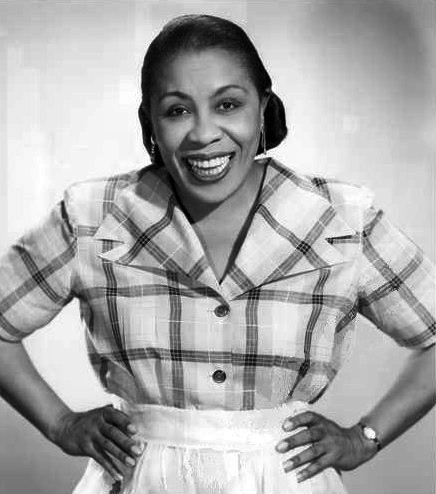 Publicity photo of Lillian Randolph from the radio program Beulah. She played the role on radio from 1952 to 1953.